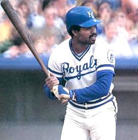 Professional baseball player Hal McRae